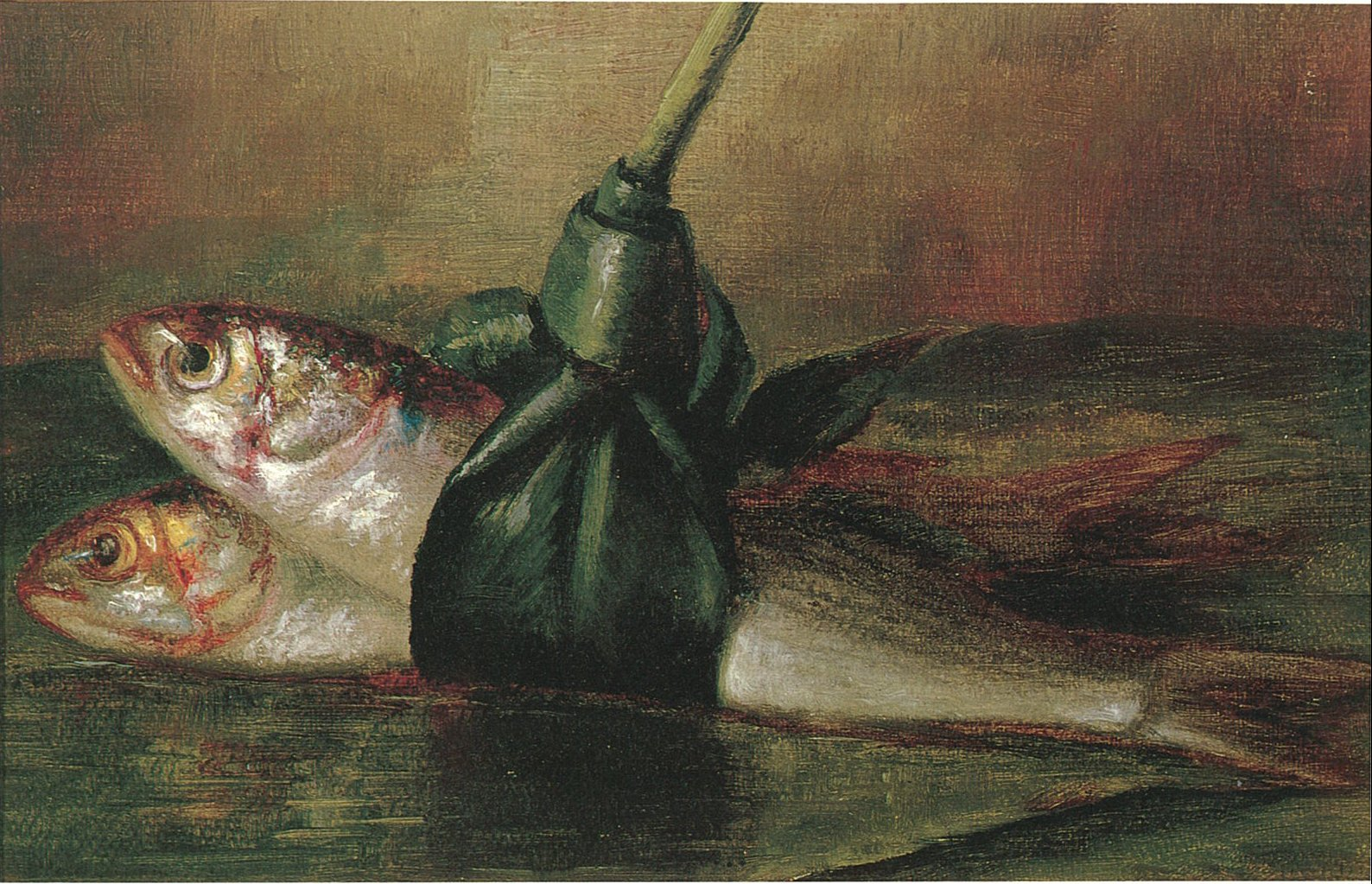 Mullet Wrapped in Ti Leaves by Juliette Montague Cooke Atherton